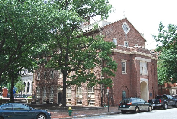 Market House Building, Providence, RI